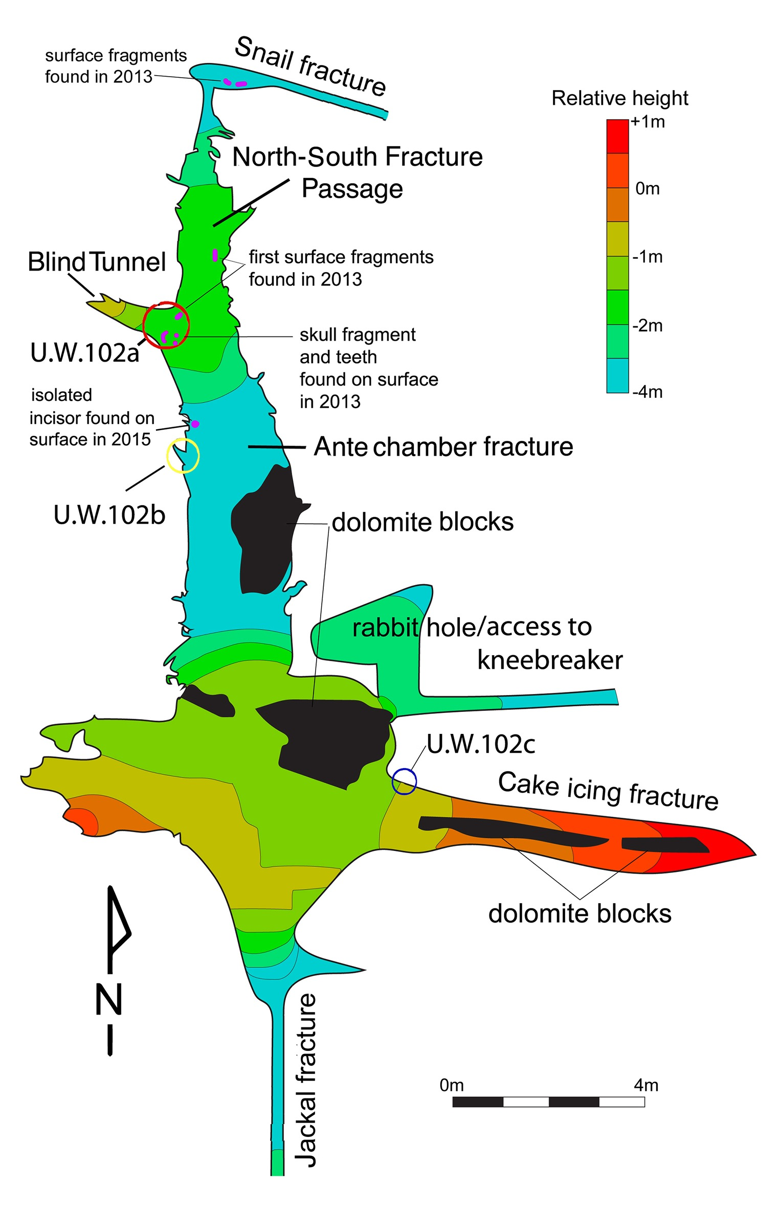 Schematic of the Lesedi Chamber, showing the three hominin-bearing collection areas: U.W.102a, 102b, and 102c.